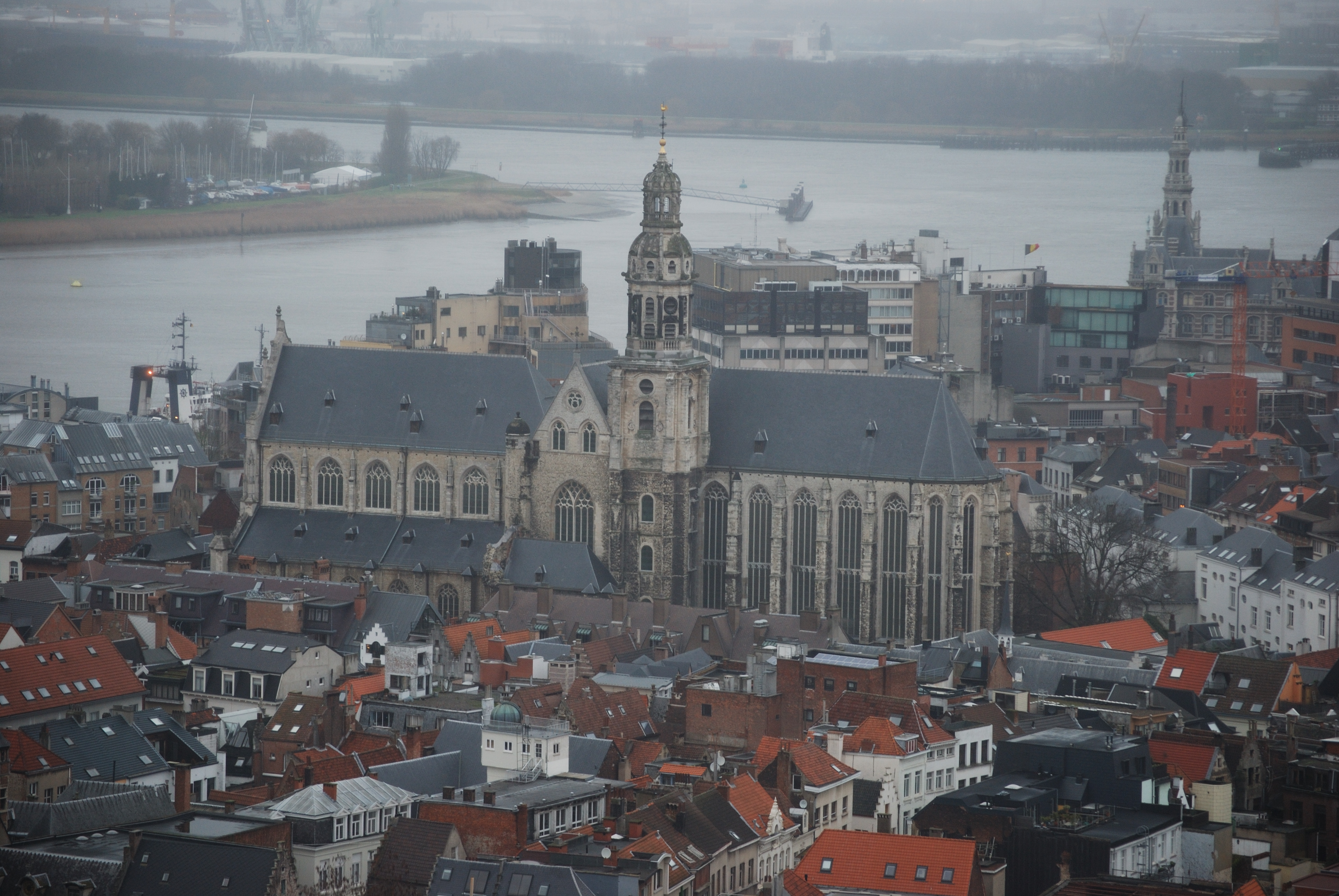 South face of the church of Saint Paul in central Antwerp, Belgium, as seen from the top floor of the Boerentoren building. In the background is the river Scheldt and some of the older port infrastructure. The tower on the right belongs to the historic Tolhuis (tax office). Nikon D60 f=92mm f/4.5 at 1/40s ISO 200. Colour corrected and reduced in Nikon ViewNX 1.0.3.